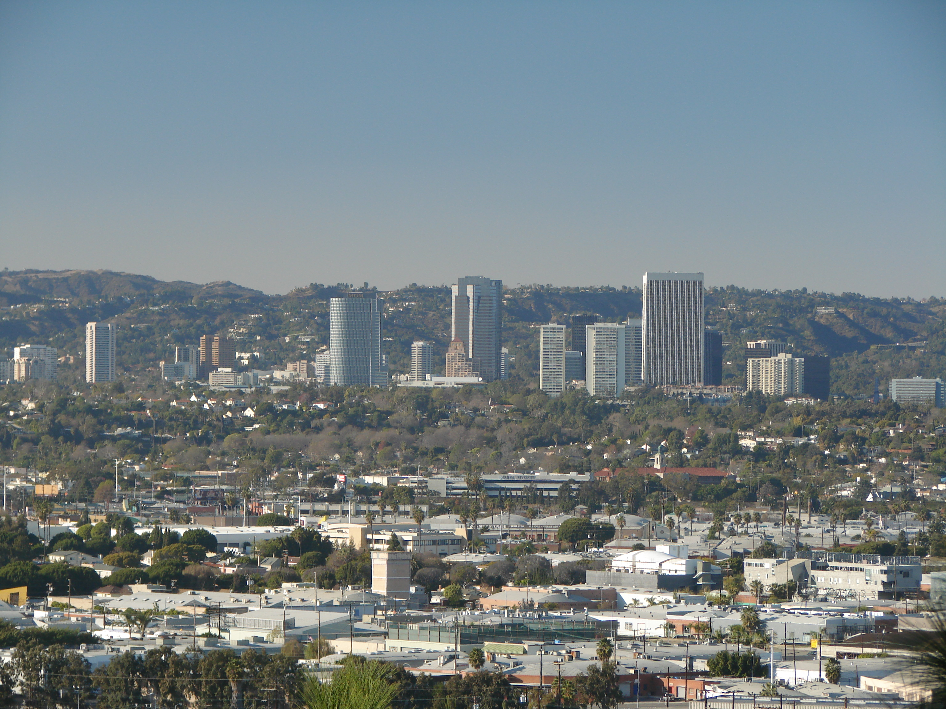 Century City from Kenneth Hahn State Recreation Area, Los Angeles, California, USA